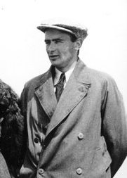 Trygve Bratteli at the International Labour Conference in Geneva, Switzerland.